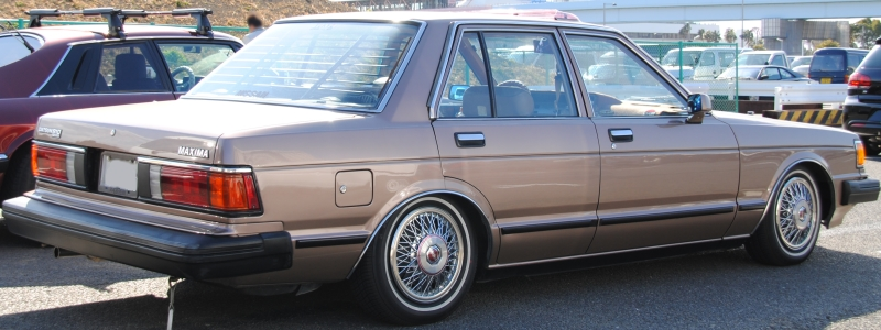 US-spec Datsun 810 Maxima in Japan